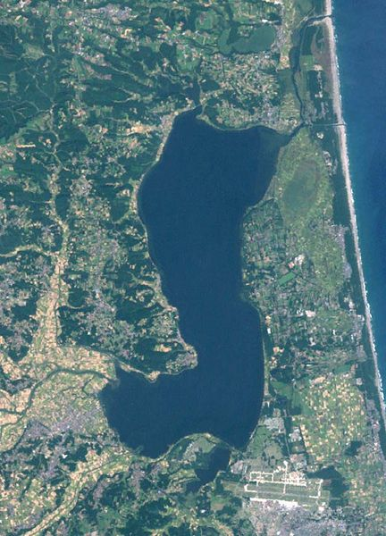 Lake Ogawara, Aomori Prefecture, Japan Landsat image